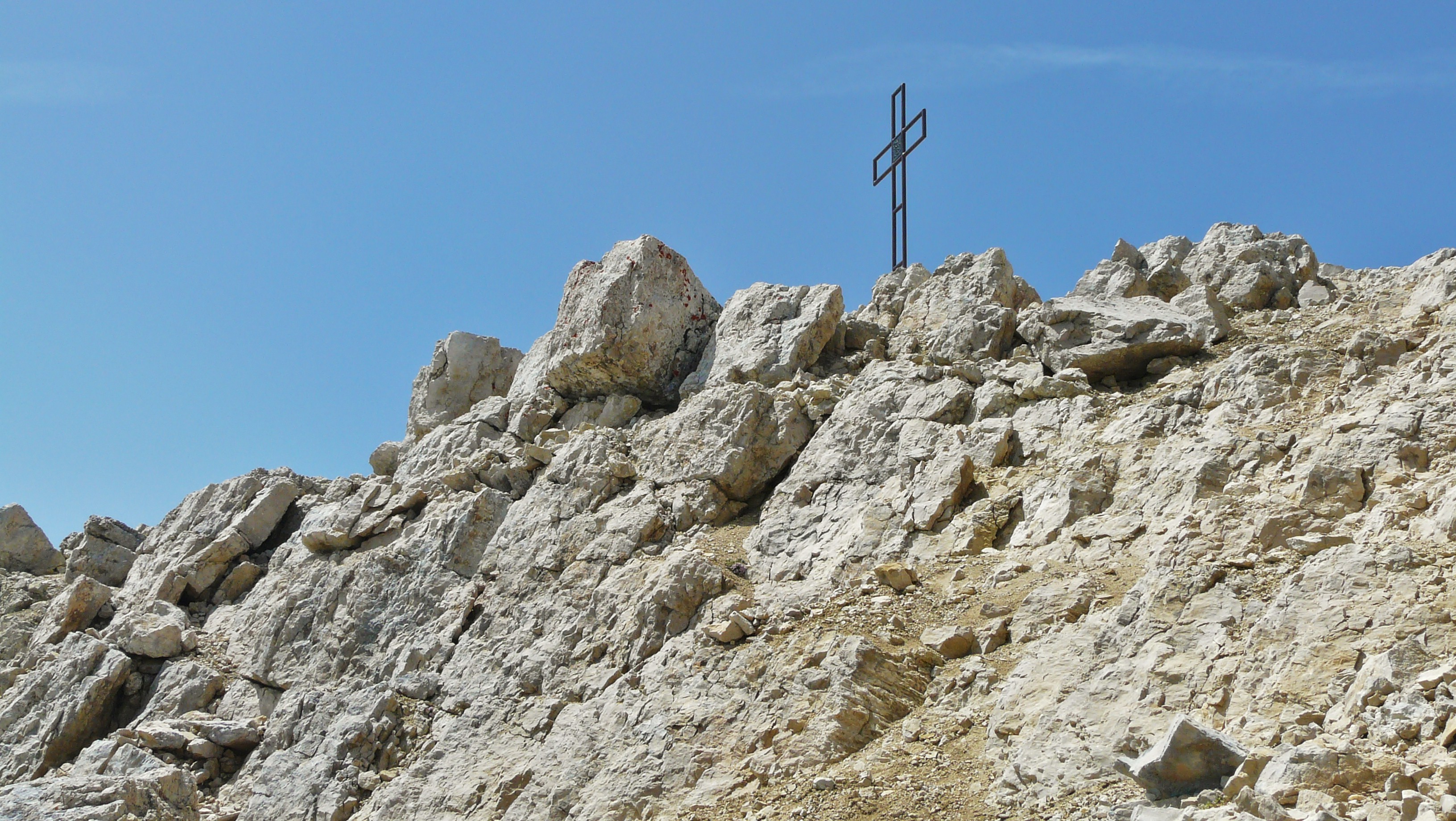 A cross on the summit of Tofana di Mezzo in 2009 July.